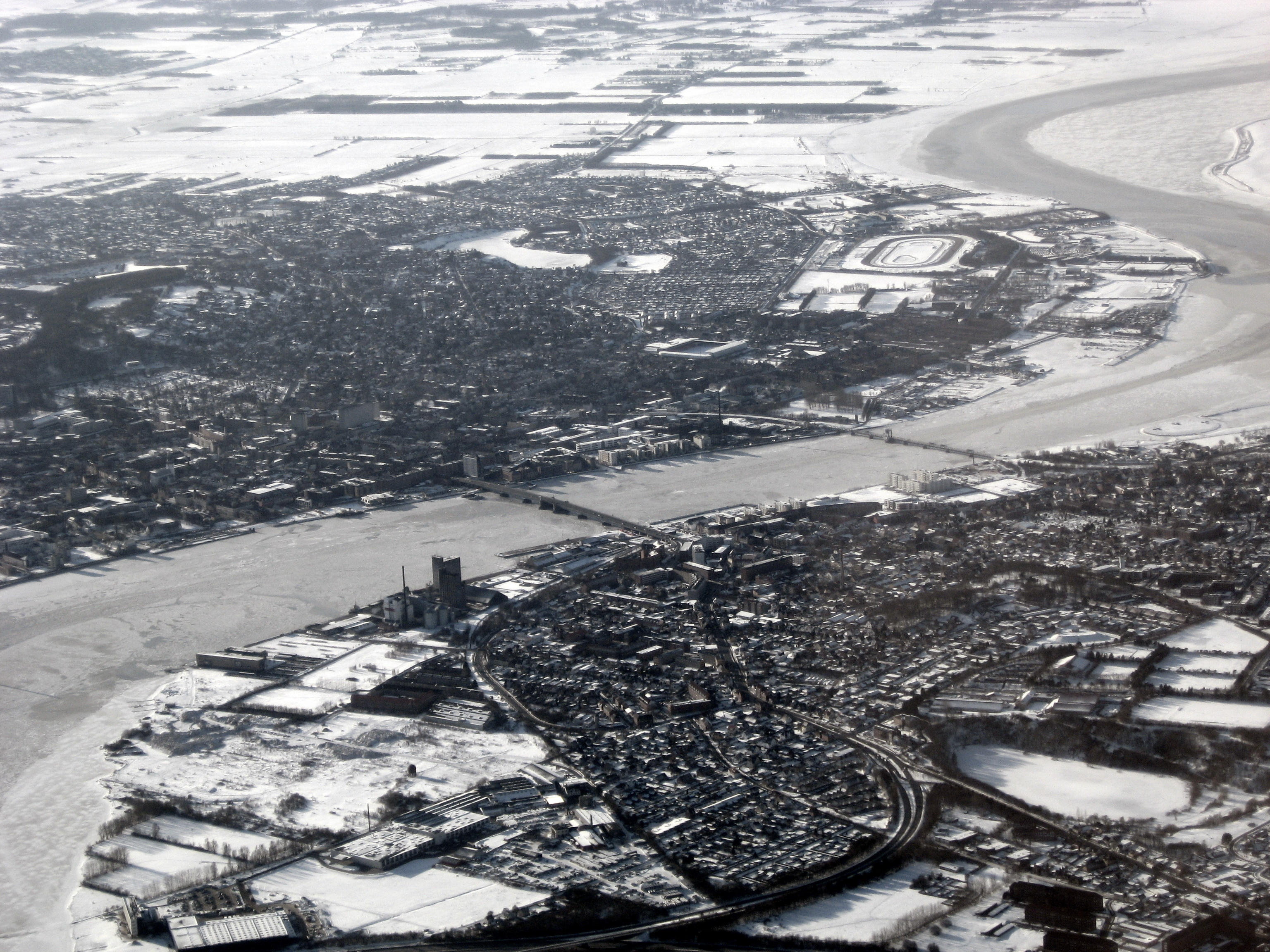 Two bridges over Limfjorden, joining Aalborg and Nørresundby